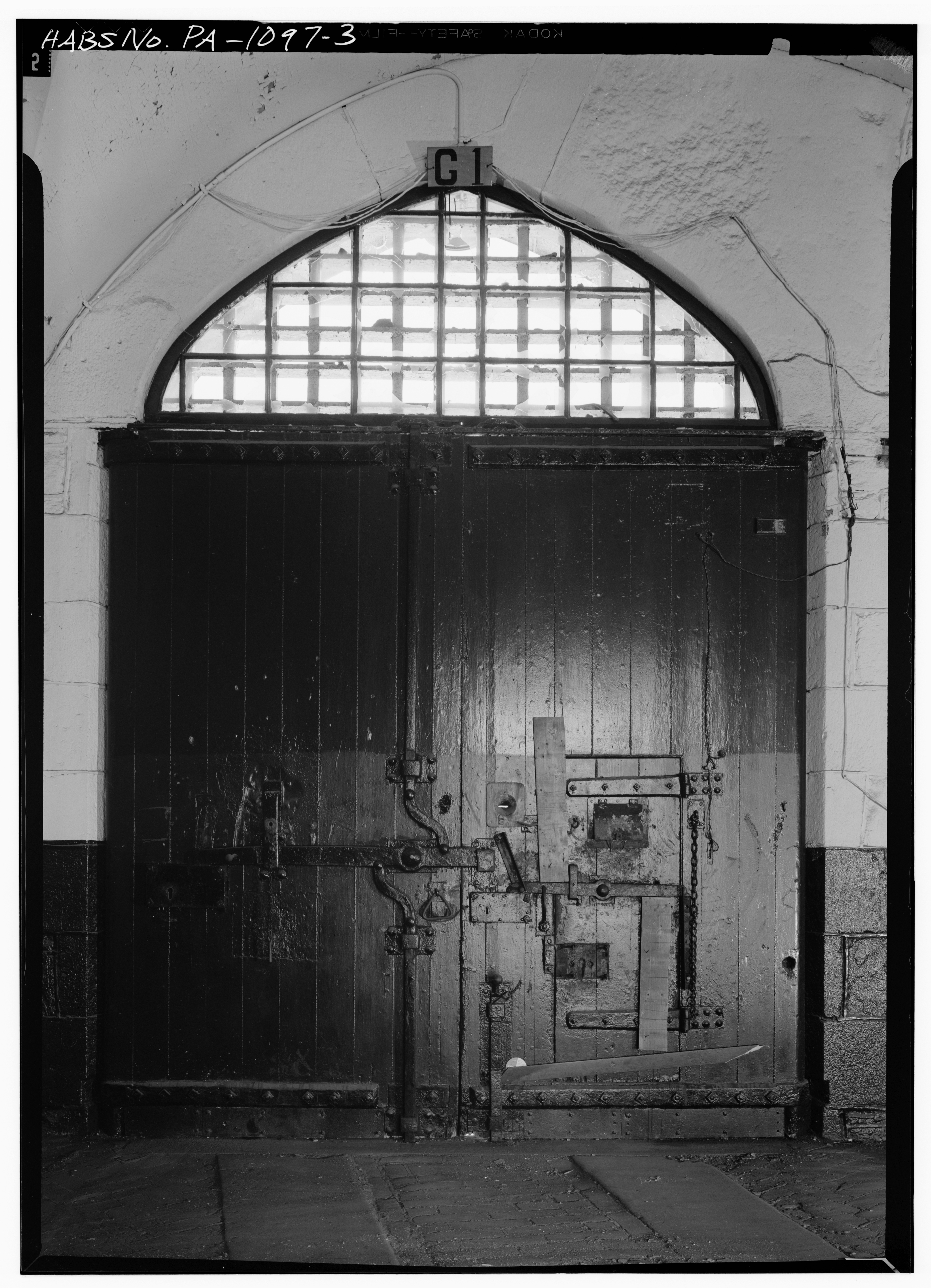 Philadelphia County Prison (Moyamensing Prison) Philadelphia PA. Interior of North Front Gate. From LOC Historic American Buildings Survey (HABS) PA-1097, Control Number: pa1056. Jack E. Boucher, photographer (July 1965).